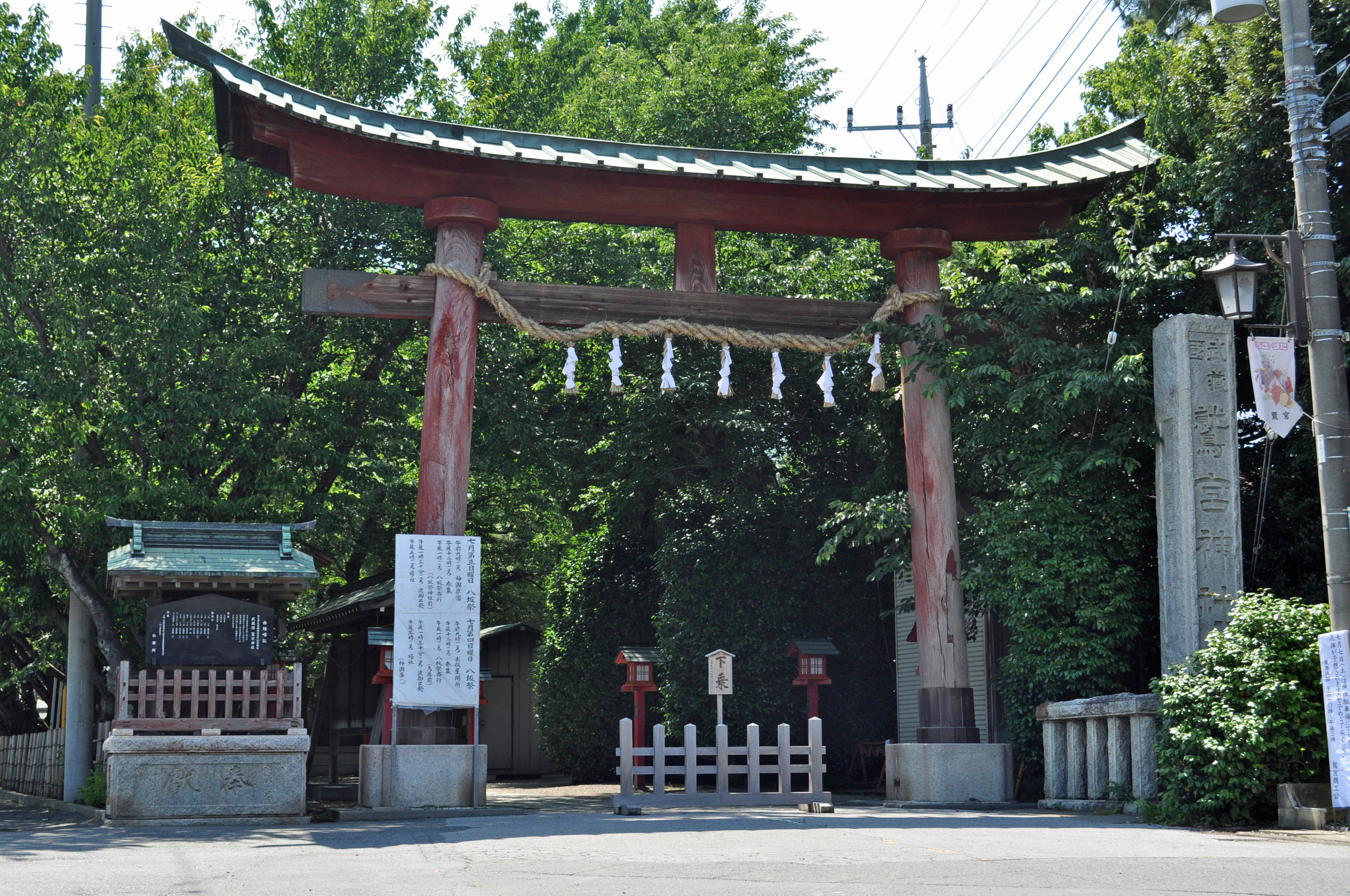 Washimiya shrine Torii